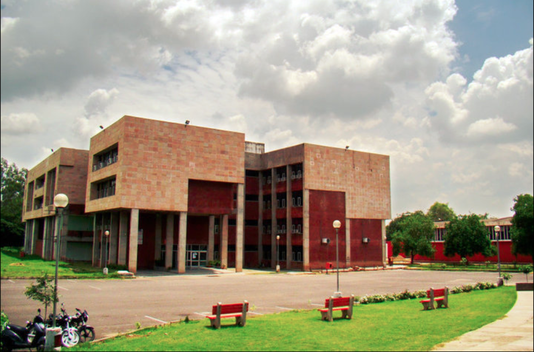 Degree Wing of CCET